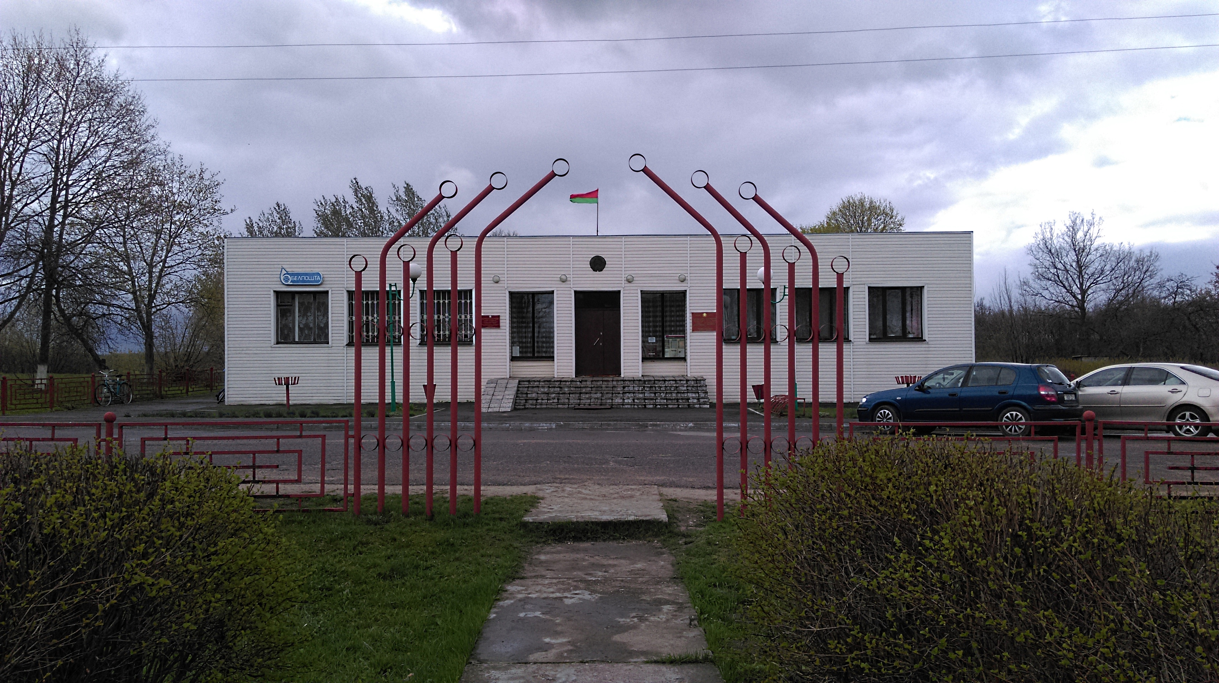 City Hall of agrotown Bluža. Pukhovichi district, Minsk region.